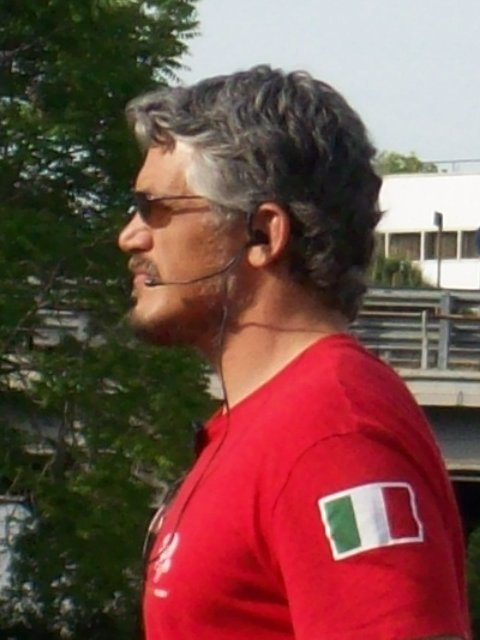 The Italian former rugby union player Franco Properzi-Curti, now assistant coach at Benetton Rugby Treviso. Photo taken in Rome after the match Rugby Roma - Benetton Treviso